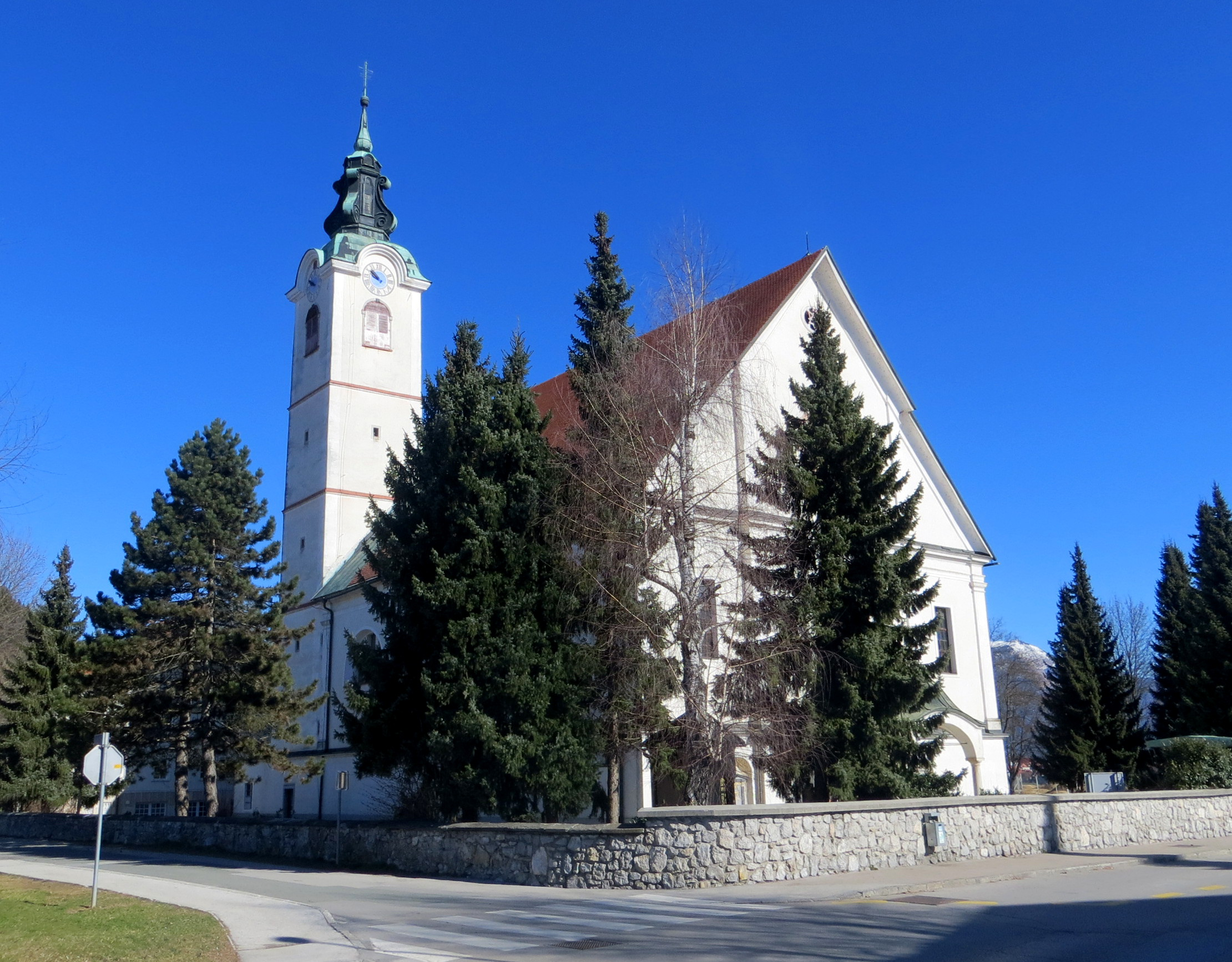 Saint Martin's Church in Stražišče, Kranj, Municipality of Kranj, Slovenia